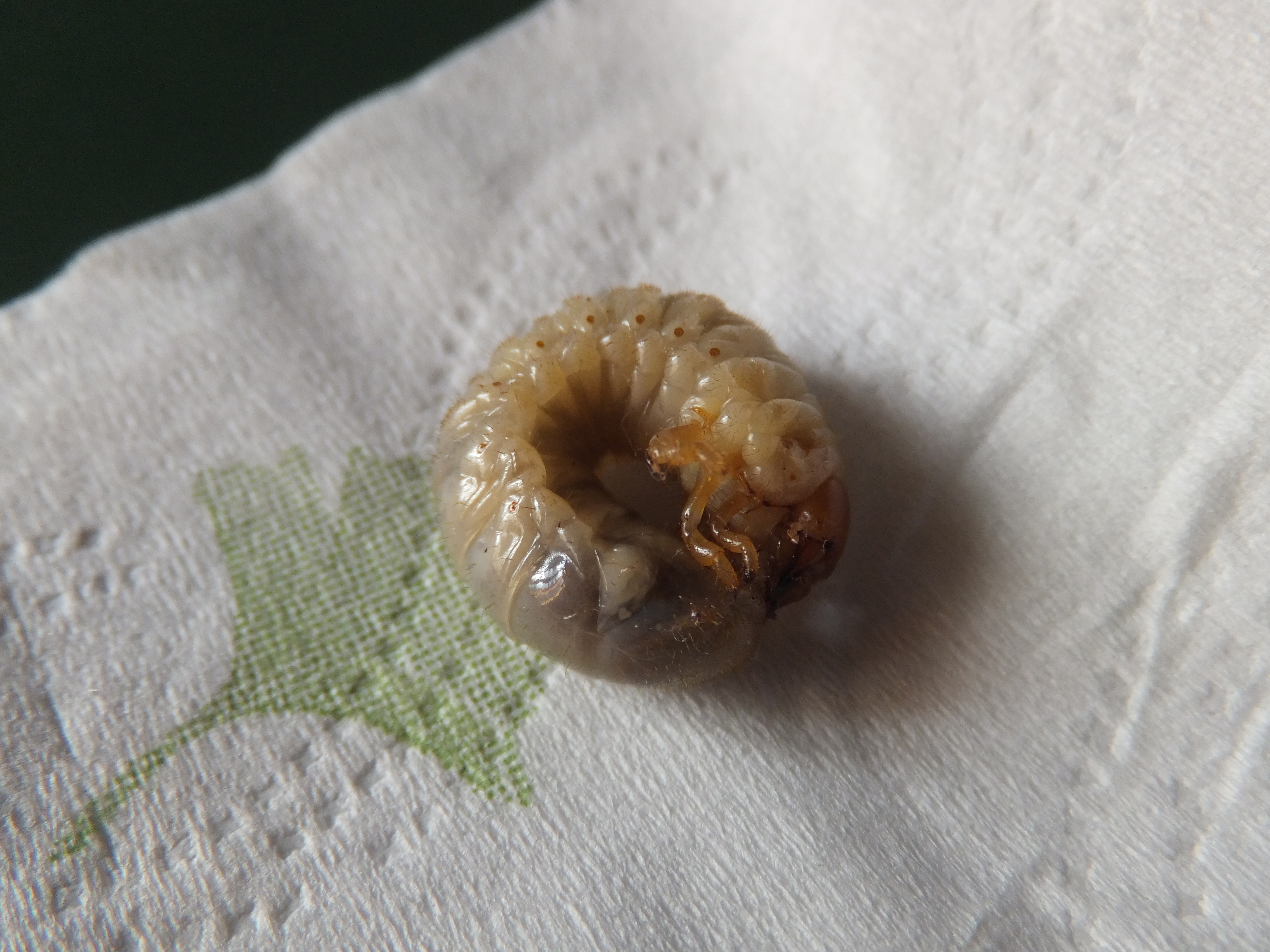 Larva of Pentodon bidens punctatus (or, less probably, of Oryctes nasicornis)